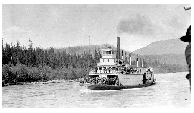 Photographer:Unknown Photo Taken:1913 Source:#G-03259 [1]